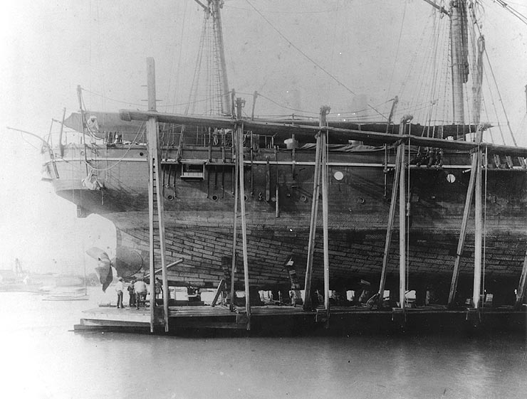 USS Nipsic (1879-1913) In the floating drydock at Honolulu, Hawaii, circa August 1889, after arriving from Samoa for repair of damage received during the 15-16 March 1889 Apia hurricane. Note her missing rudderpost and rudder, and the badly bent propeller. Original caption: “Photo # NH 90464 USS Nipsic in drydock for repairs, after the Samoa hurricane, 1889”